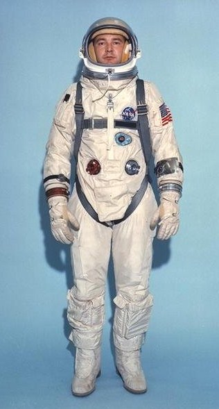 Most likely the G3C suit.